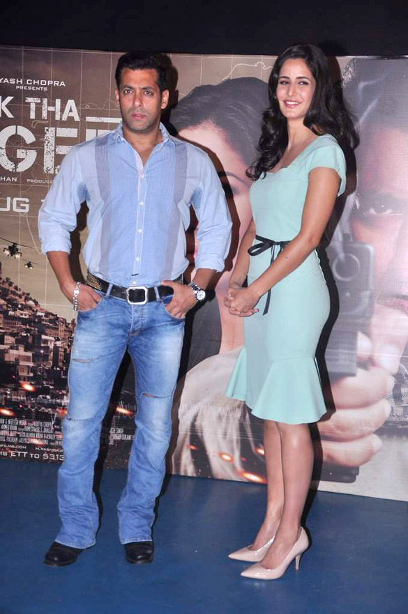 Salman Khan, Katrina Kaif at the launch of 'Ek Tha Tiger's first song 'Mashallah'